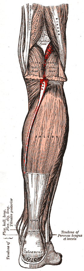 Musculus plantaris on Gray 438